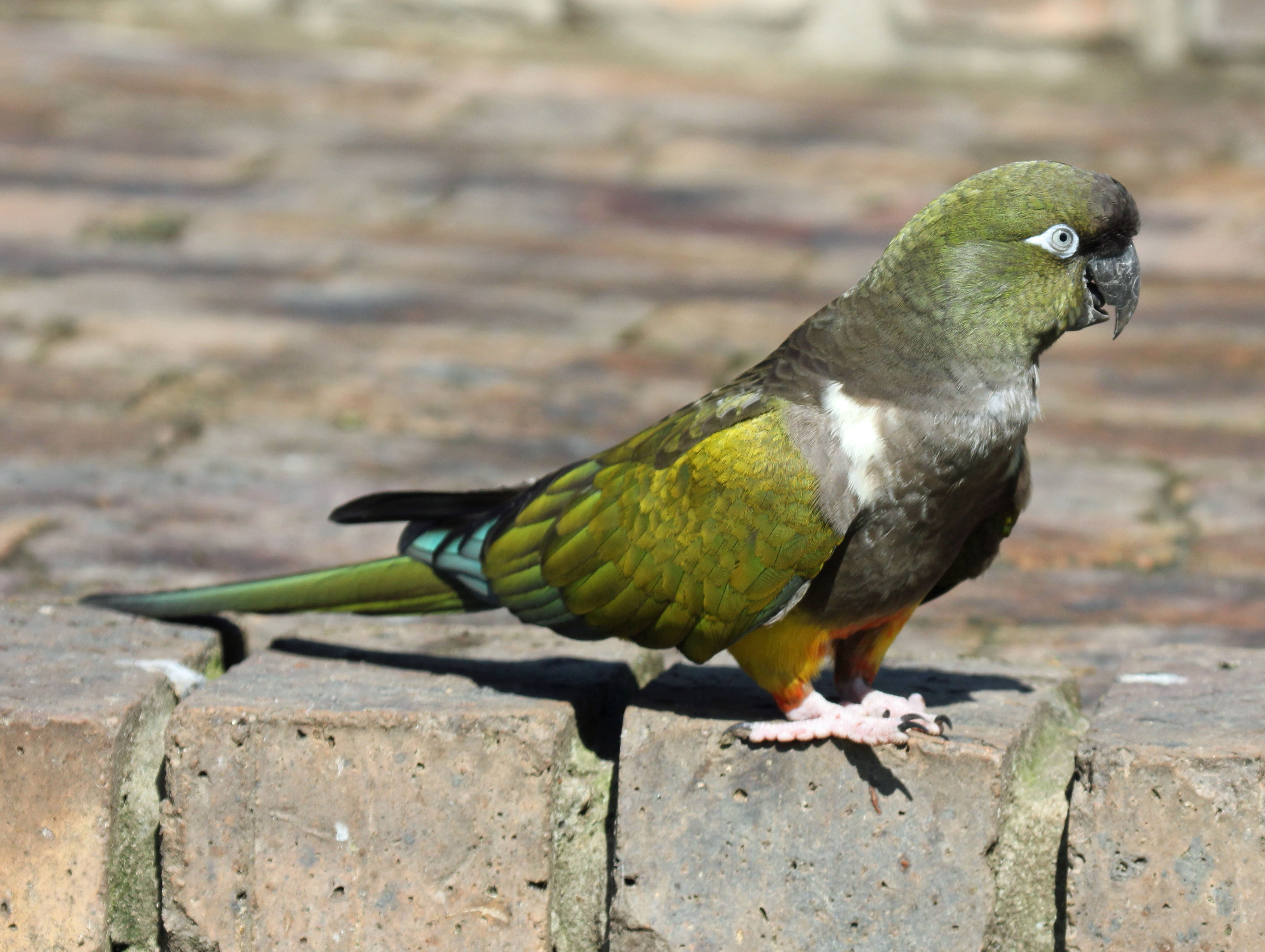 A Burrowing Parrot at Birds of Eden, an aviary in Western Cape, South Africa.